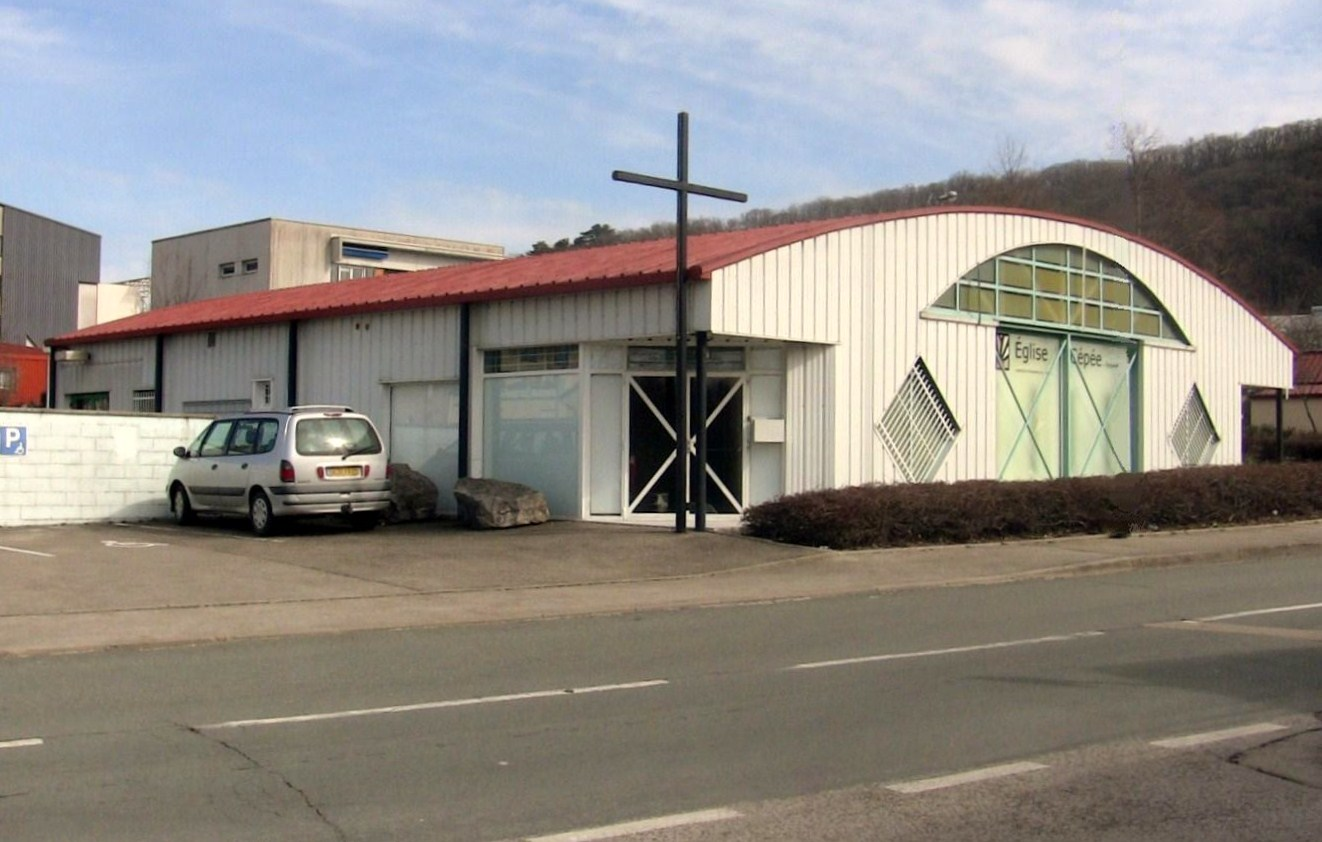 Cépée church located in Besançon (Doubs, France).